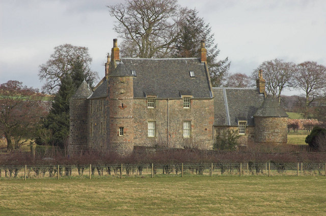 Stair House, East Ayrshire, dates from the 17th century Stair House, Ayrshire. Set in the idyllic surroundings of the Ayrshire countryside, Stair is a small hamlet and has a number of attractions that are of historical interest. Stair House built in the 17th century is one of the loveliest houses in Scotland. It has links with Robert Burns. A good vantage point to view its beautiful exterior is from Stair Bridge.